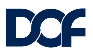 Official corporate logo for DOF ASA, a publicly traded company on OSEBX.